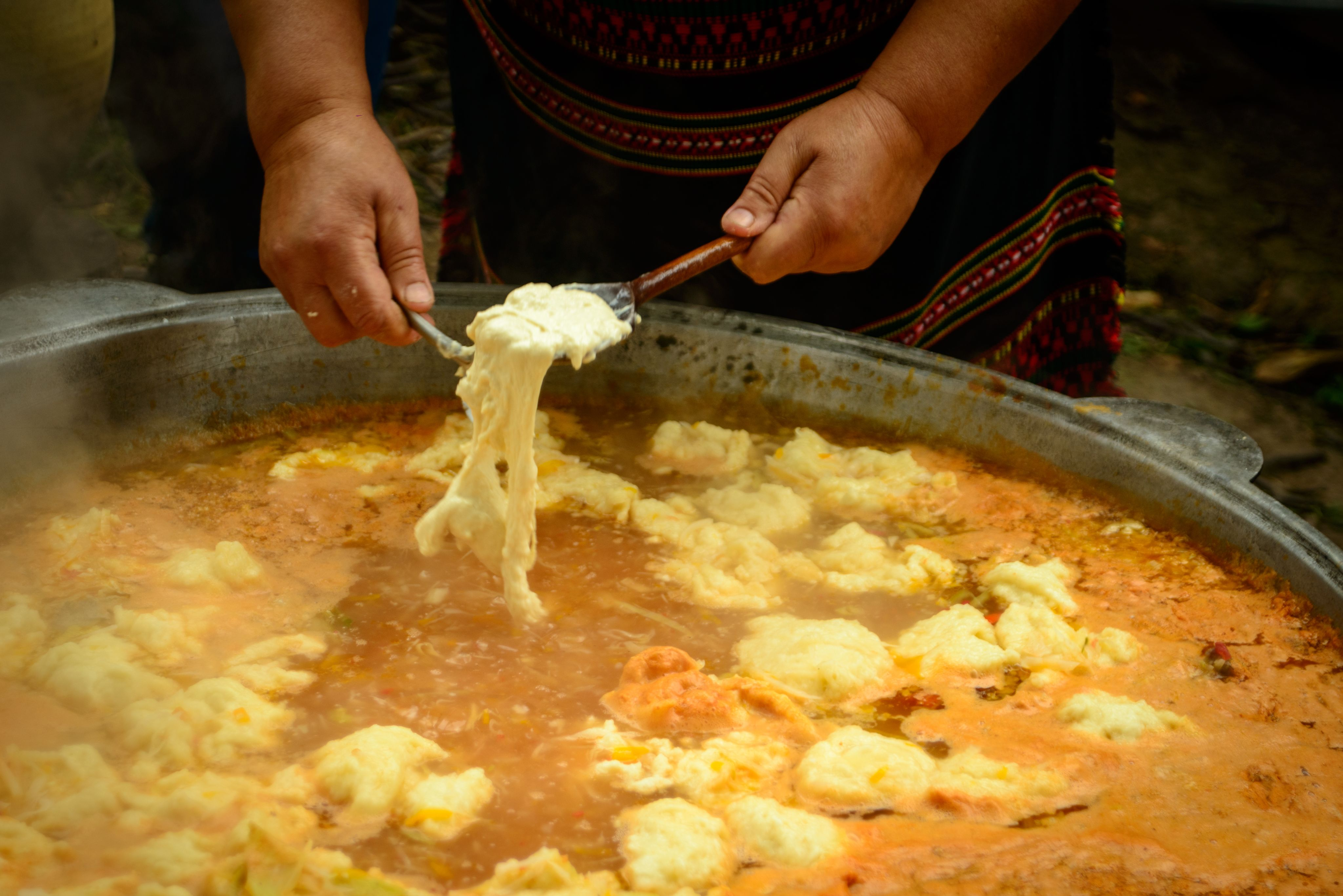 The process of cooking borscht with dumplings. Wikiexpedition to Fest "Borschyk in clay pot". Poltava region